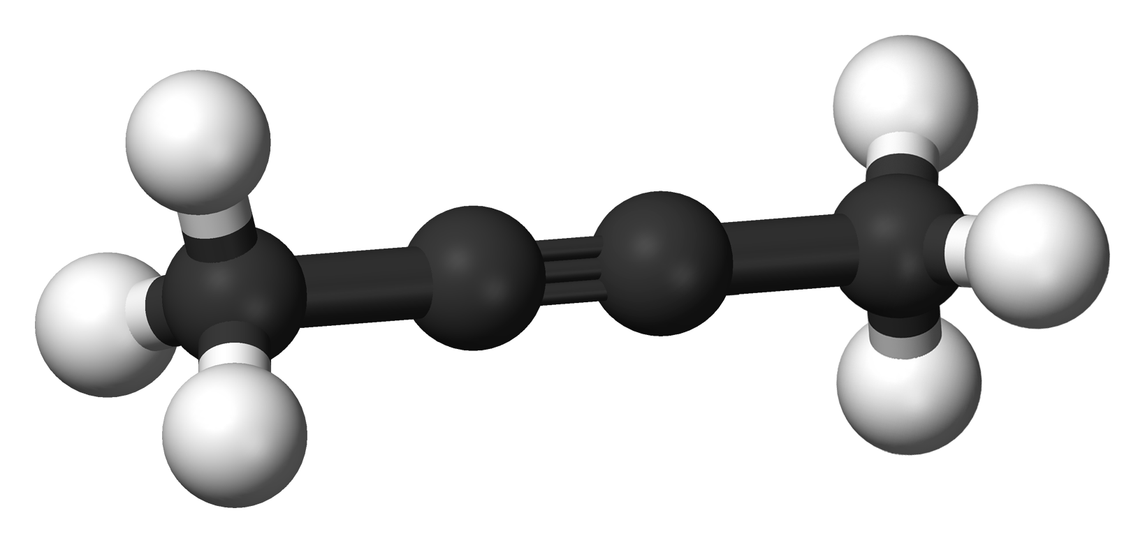 Ball-and-stick model of the 2-butyne molecule (also known as dimethylacetylene), a four-carbon internal alkyne.